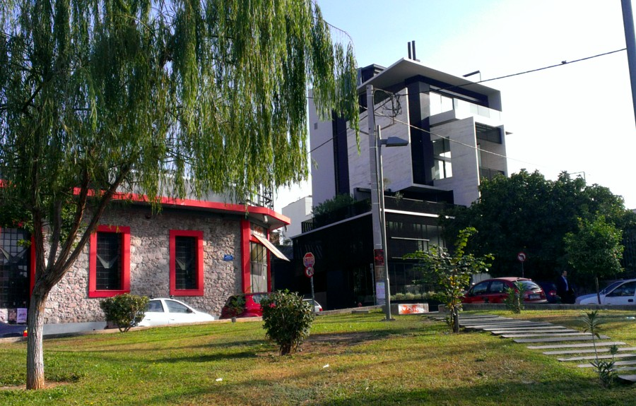 gazi-house